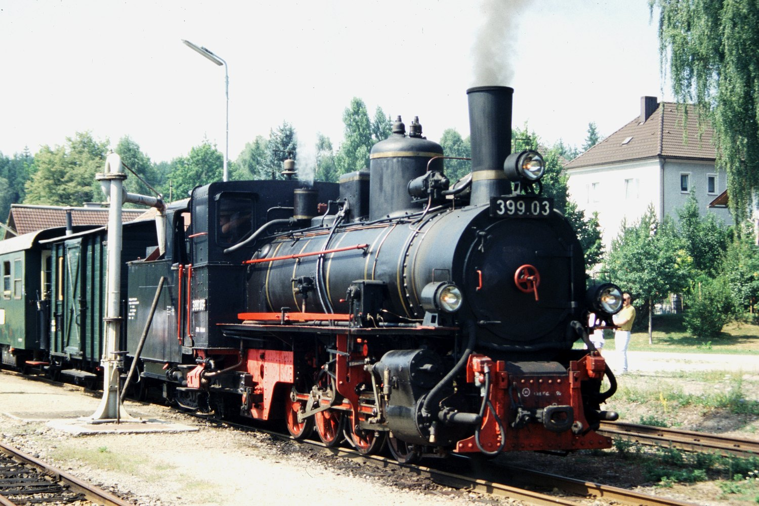 ÖBB 399.03 in Alt Nagelberg station on the Waldviertel narrow gauge network